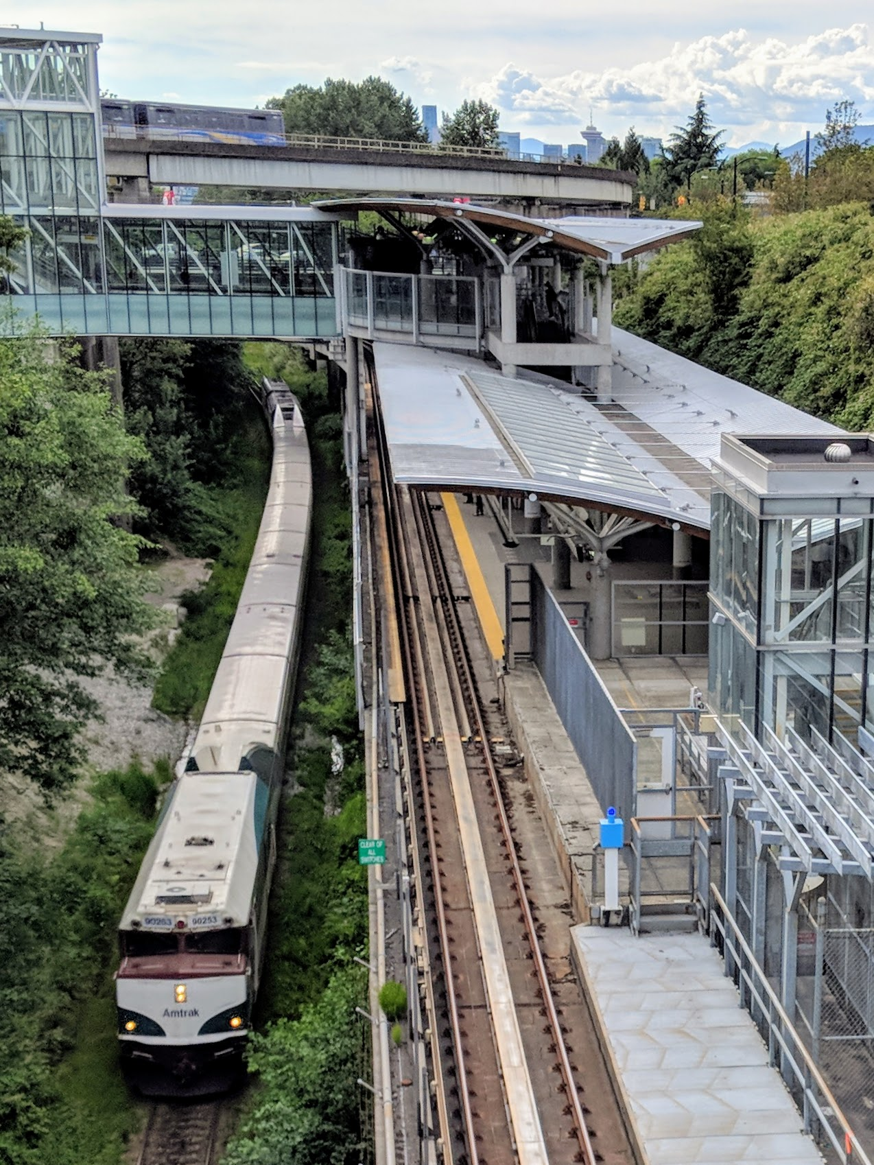 Amtrak Cascades passenger train running through the Grandview Cut adjacent to Commercial–Broadway station in Vancouver, British Columbia, Canada. June 2019.